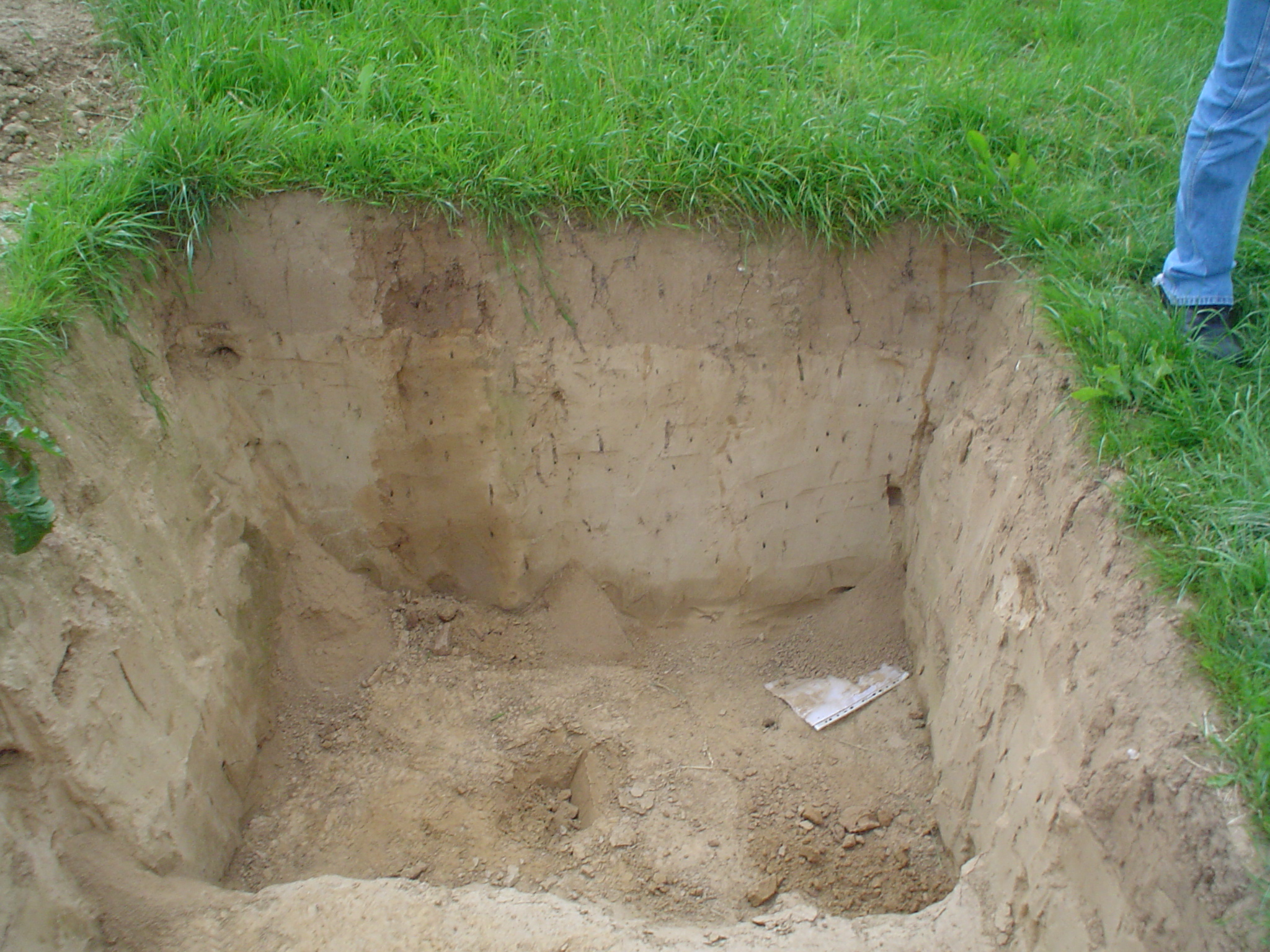 Calcaric regosol on loess.